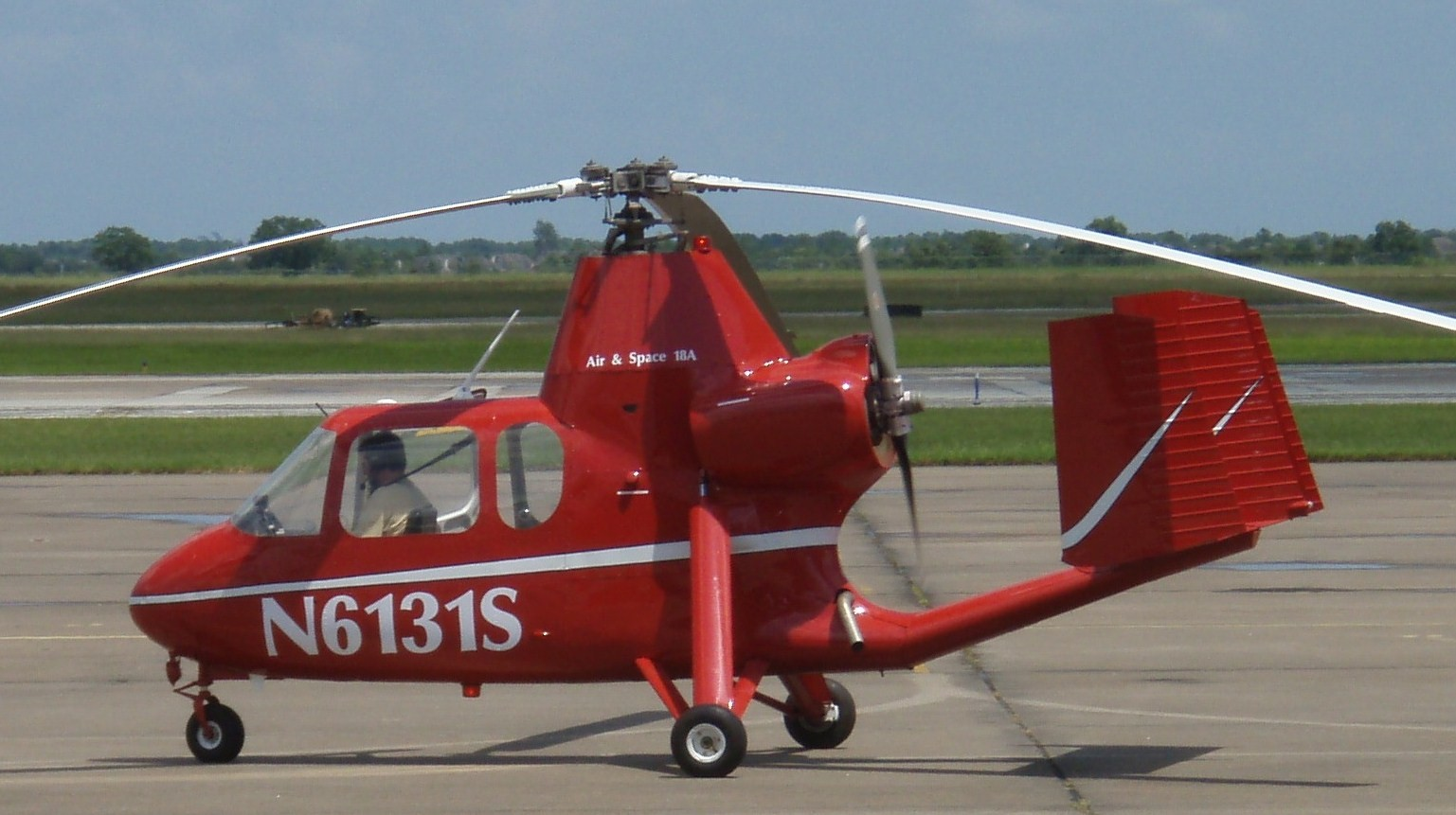 Air & Space 18A at Houston, TX 2007